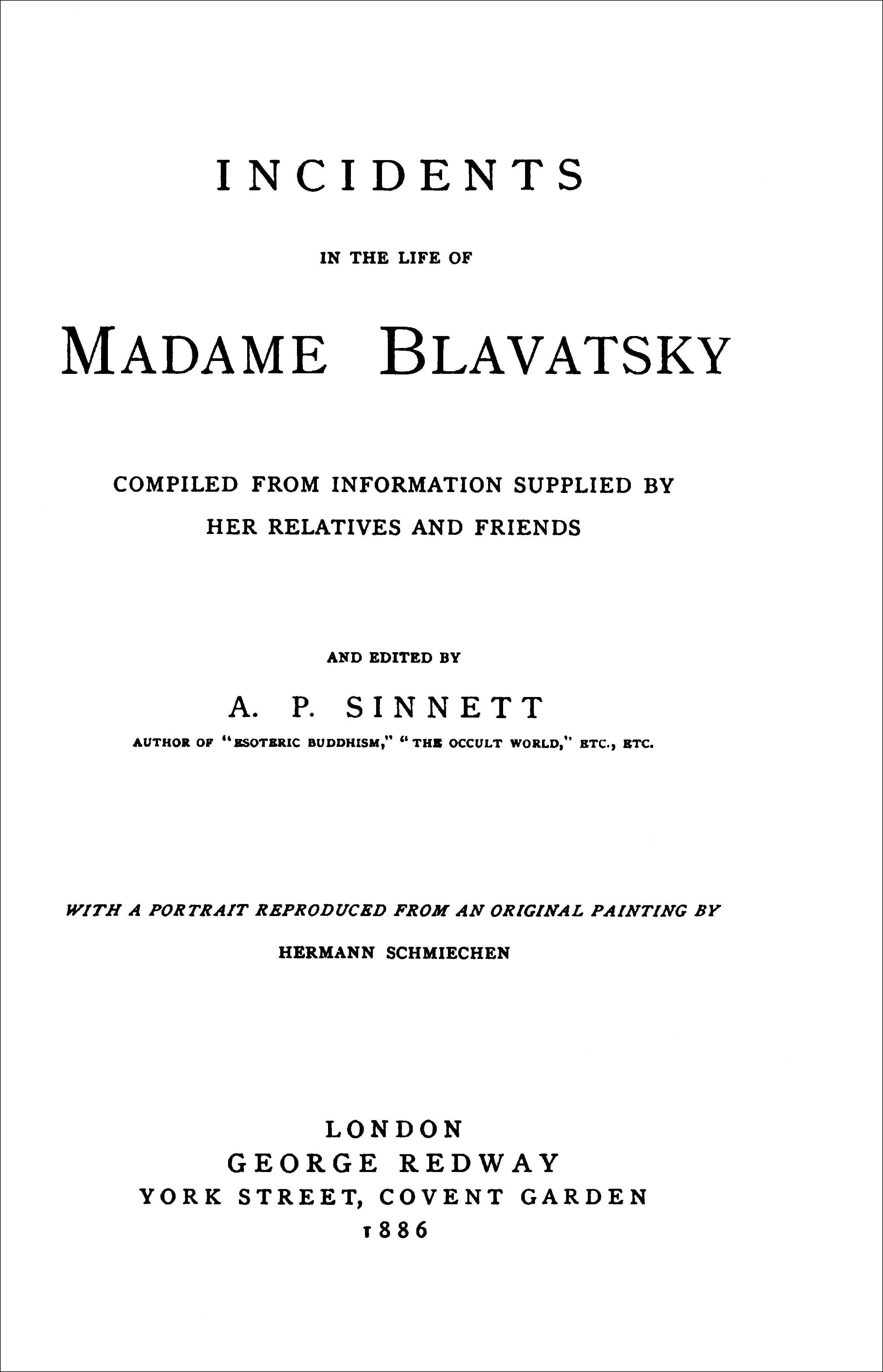 The Book Incidents in the life of Madame Blavatsky. Title page to edition 1886.